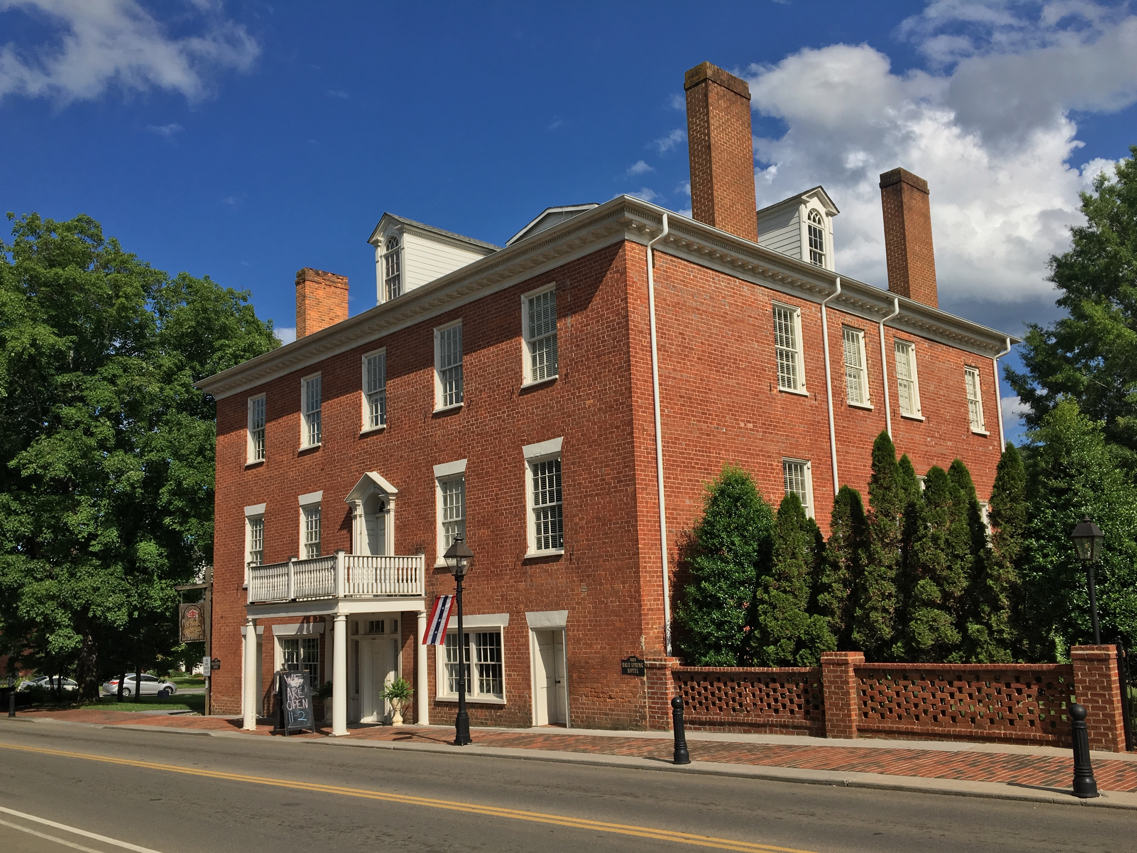 The Hale Springs Inn, built in 1824, is apart of the Rogersville Historic District in downtown Rogersville, Tennessee. Taken in June 2020.